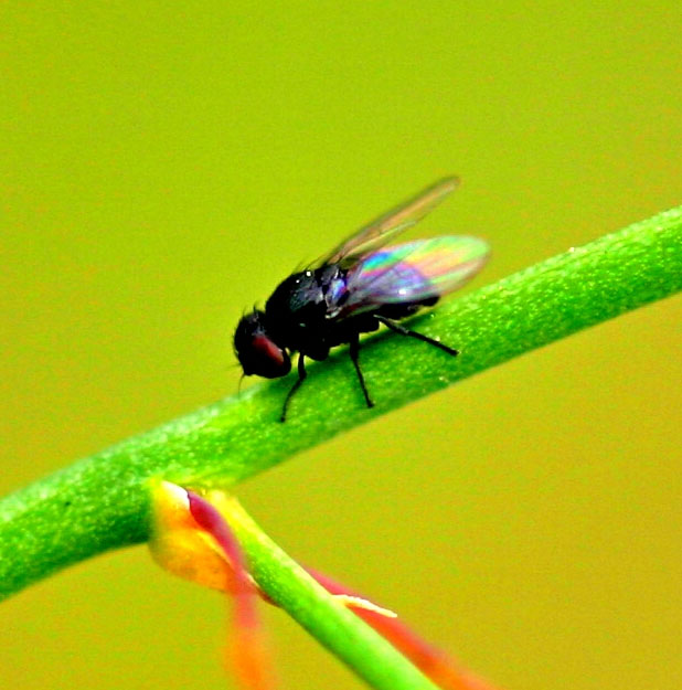 This is an adult asparagus miner in the fern of asparagus in the field.